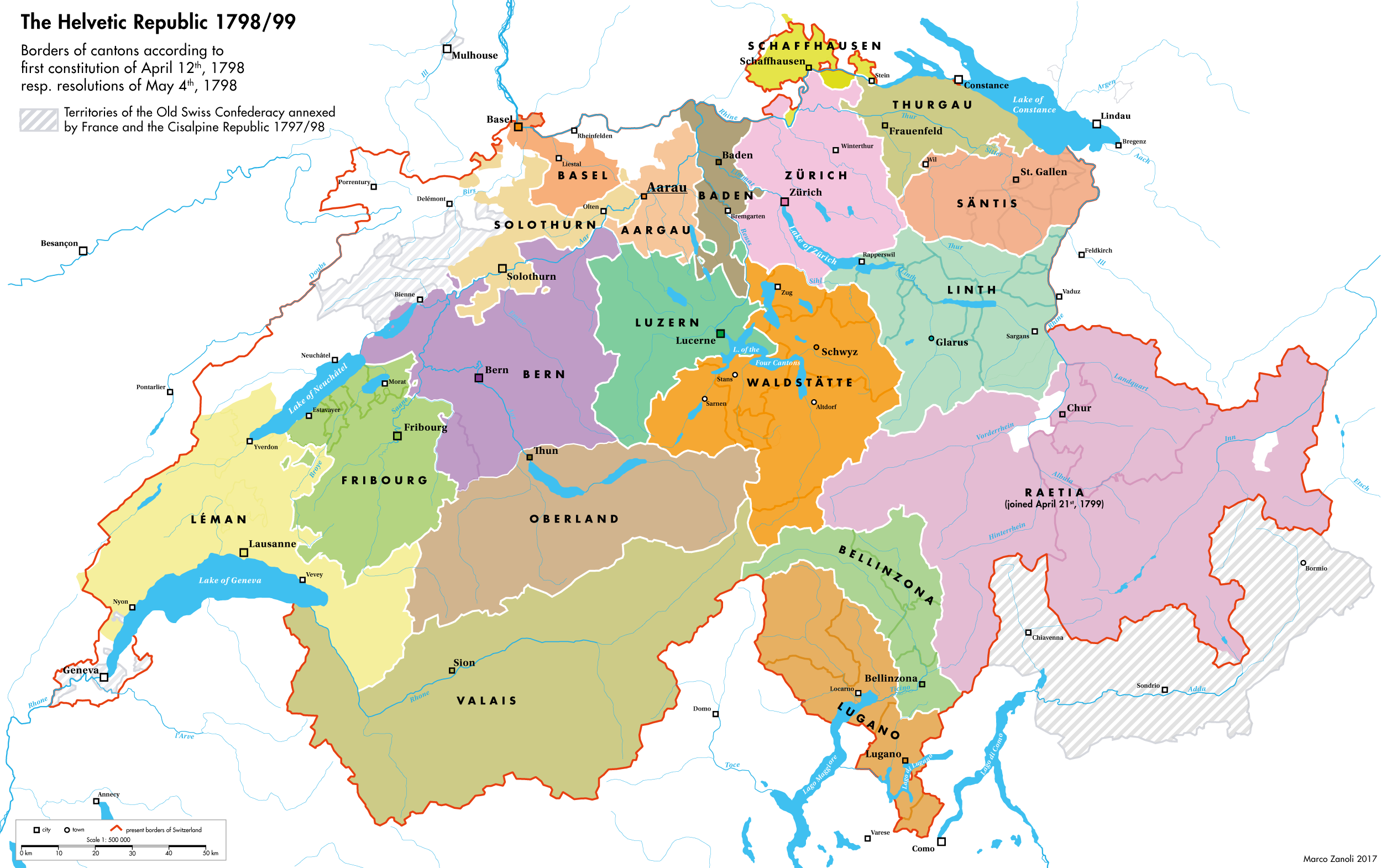 Map of the Helvetic Republic according to the first constitution of April 12, 1798 and resolutions of May 4, 1798.